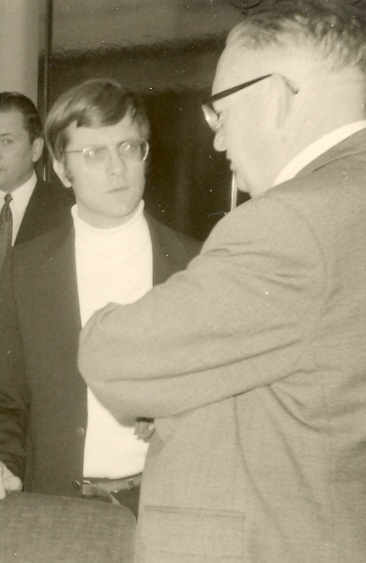 Hans Peter Rehm, Wilhelm Karsch chess composers